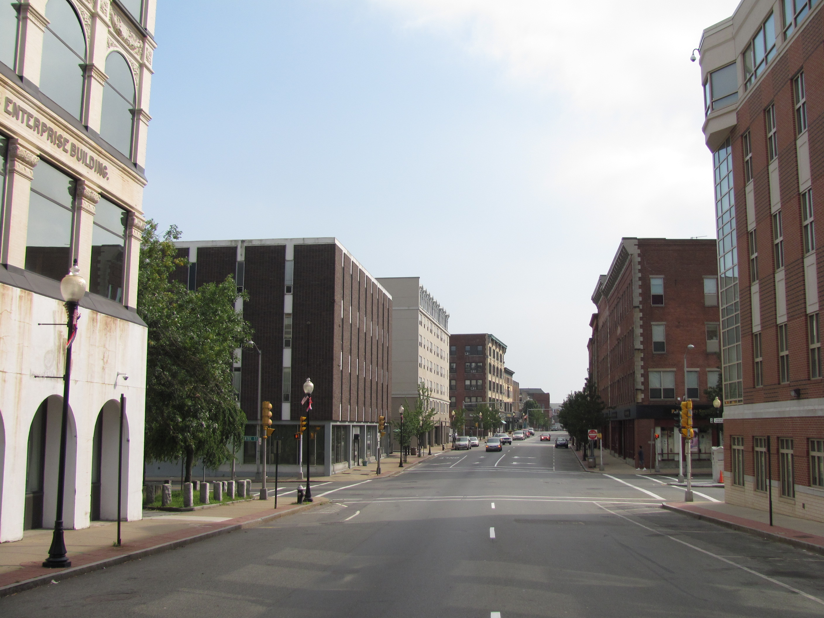 North Main Street, Brockton Massachusetts